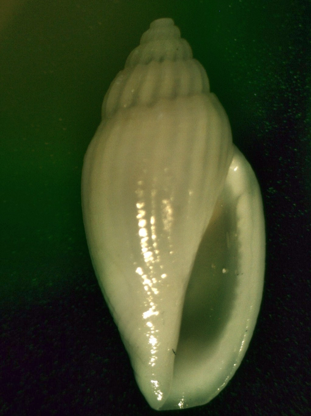 Marita compta (Adams & Angas, 1864), a cone snail from the family Mangeliidae; South Australia